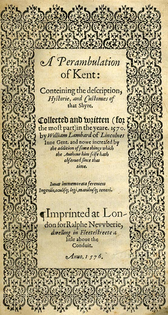 Titlepage of William Lambard's "Perambulation of Kent", being a history of the county of Kent since William the Conqueror.